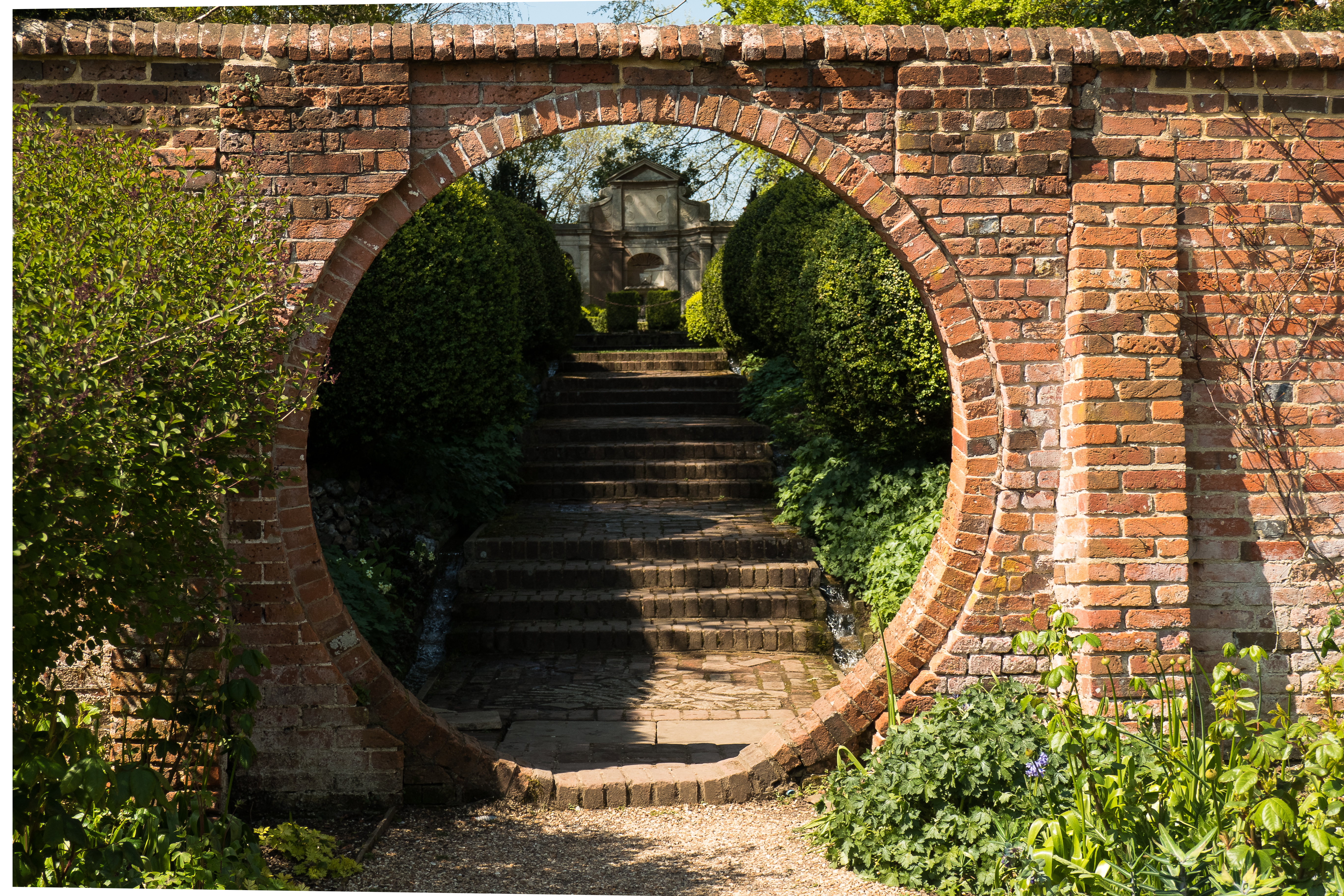 A moon gate framing the Nymphean at West Green House.